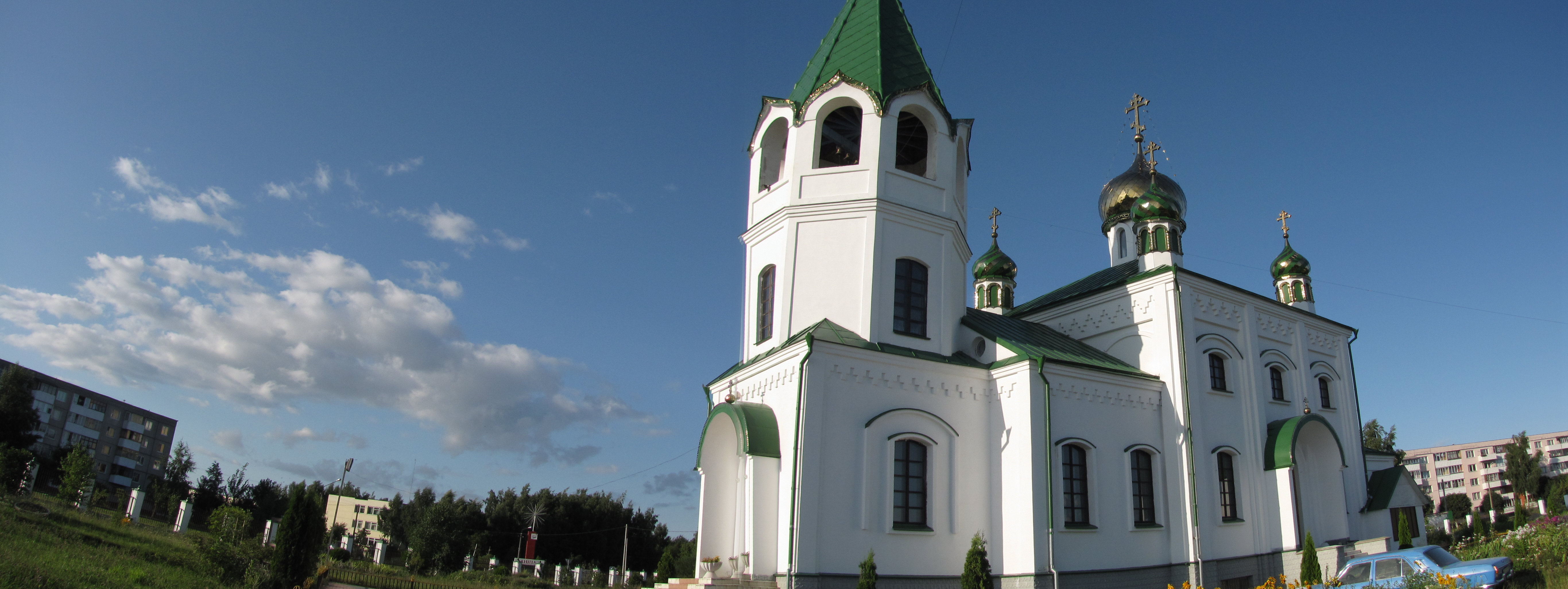 Savior-Ascension Cathedral, main church in Fanipol.